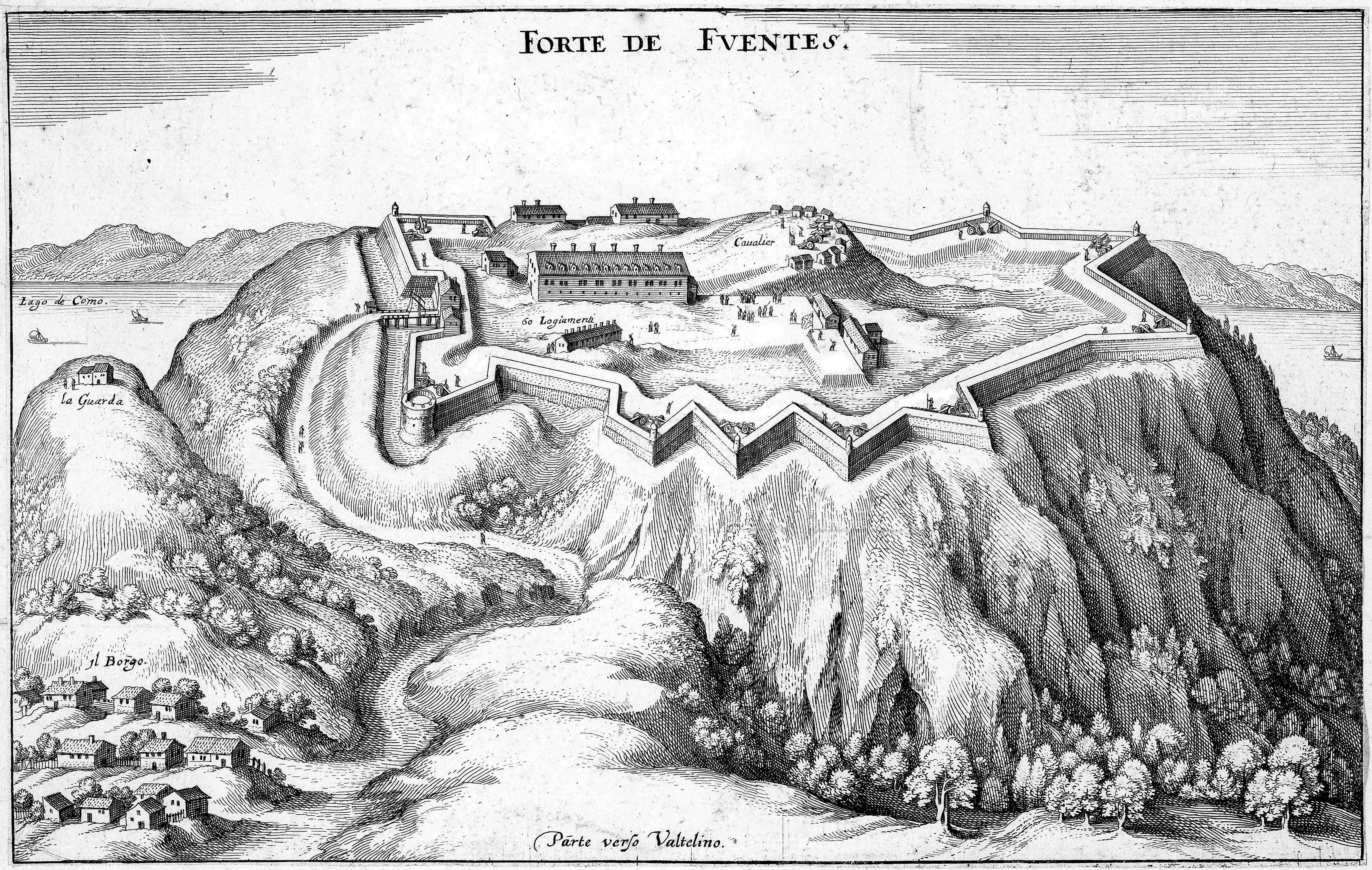 Fortress "Fuentes" at Colico, Lake of Como, built 1603 against the Three Ligues of Grison. Named after the Spanish governor of Milan, Don Pedro Enríquez de Acevedo, Count of Fuentes